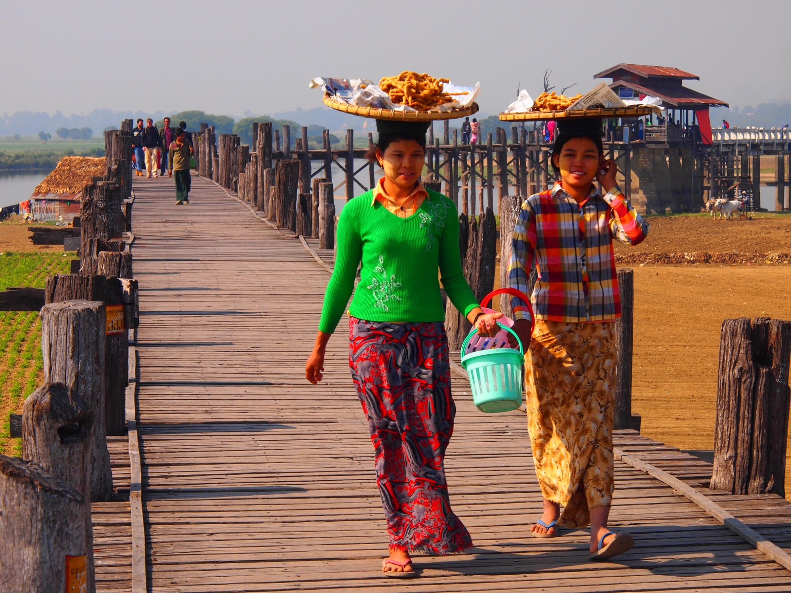 Two women walking the U Bein bridge wearing longyi.